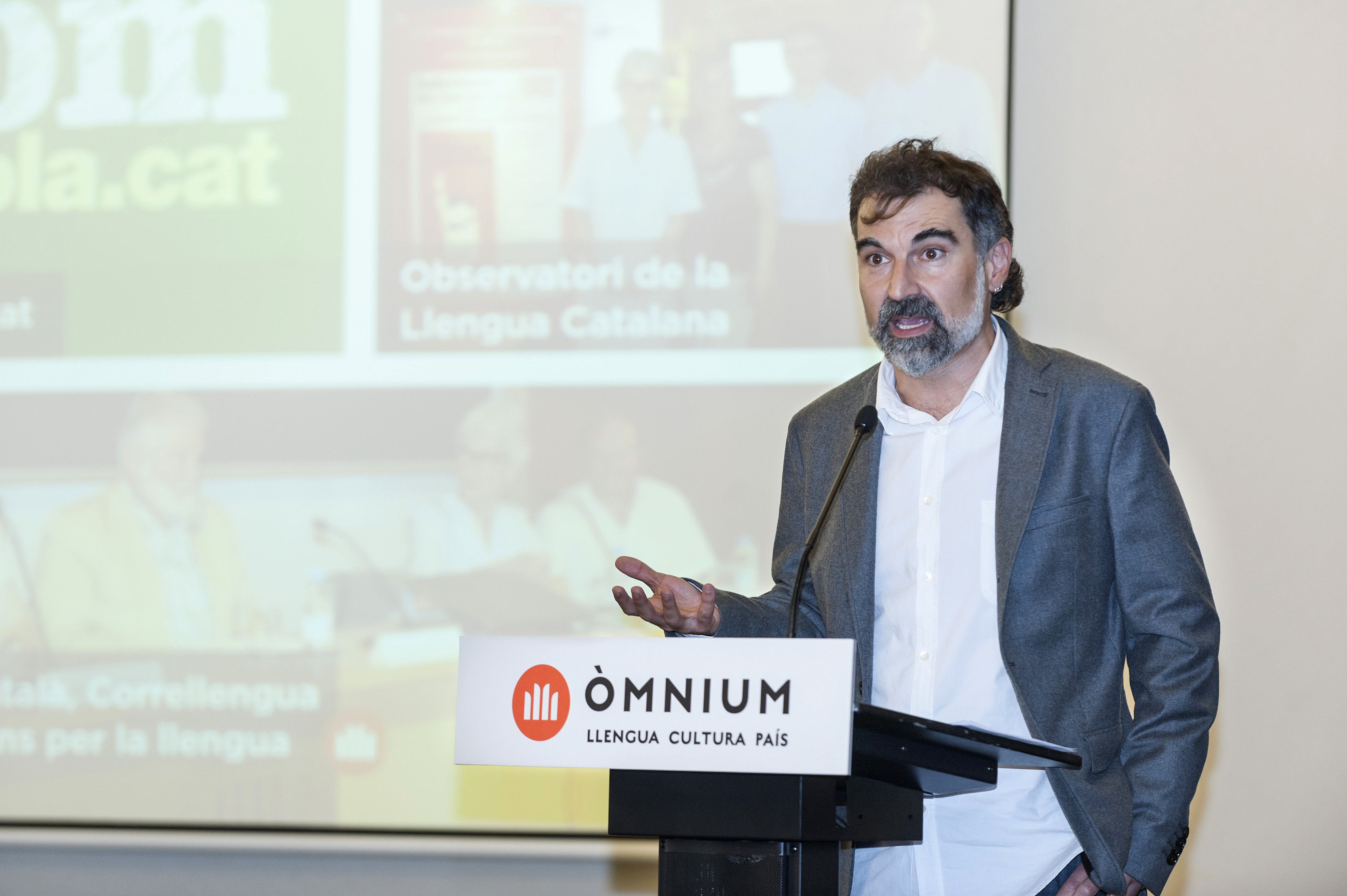 Assemblea General 2015 Òmnium Cultural +